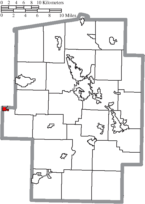 Map of the municipal and township boundaries of Tuscarawas County, Ohio, United States, as of the 2000 census, with the location of the village of Baltic highlighted. Township borders are shown only in unincorporated areas in order to differentiate incorporated and unincorporated areas more clearly.